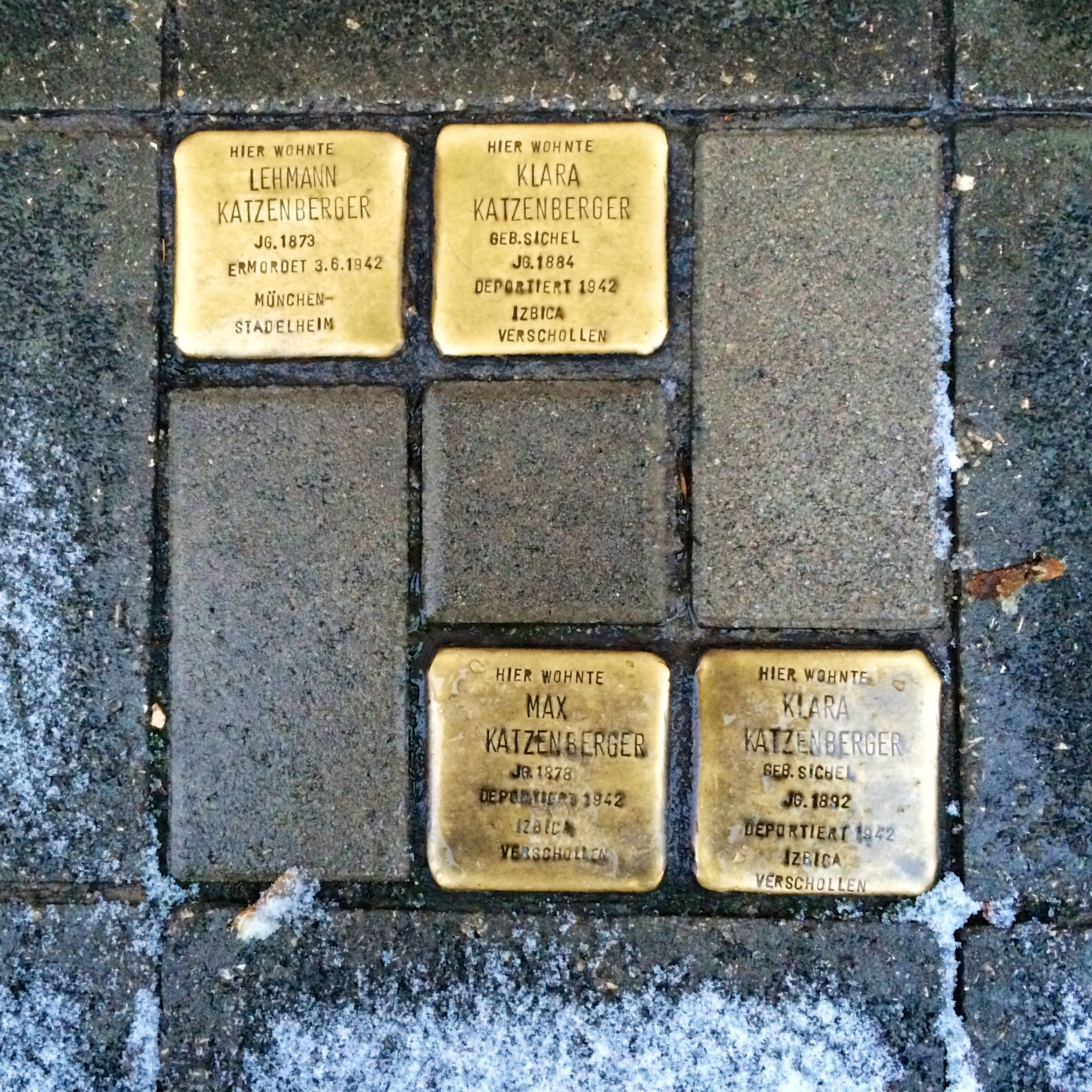 Stolperstein for the Katzenberger family